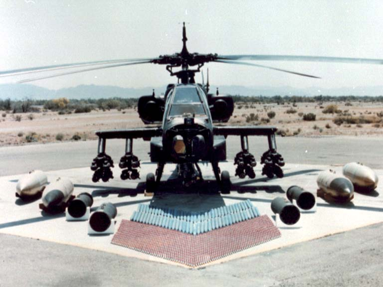 AH-64 with full ammo cargo